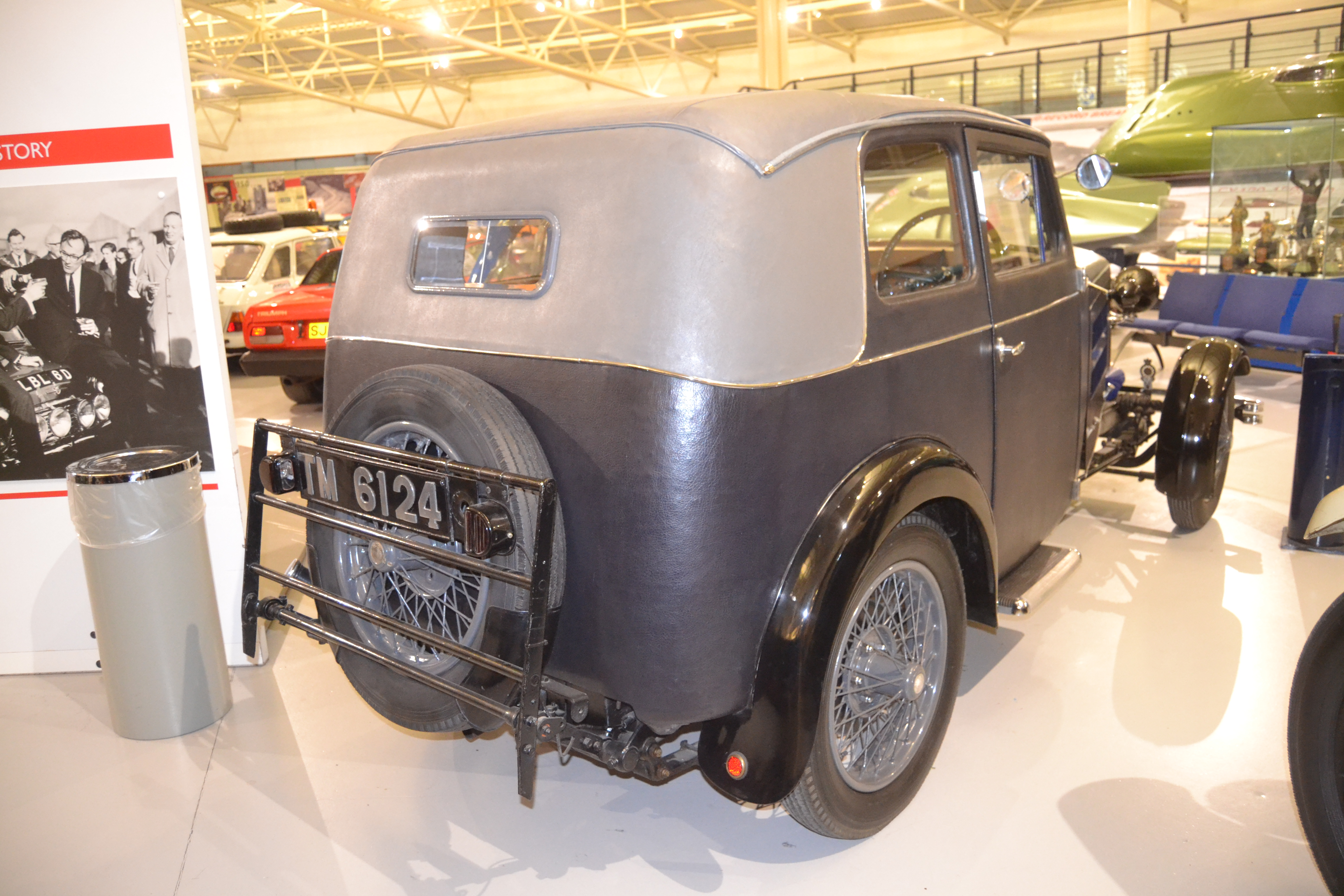 The Blue Train 1929 Rover Light Six 2-door 4-seater coupé with Weymann fabric bodyHeritage Motor Centre, Gaydon, WarwickshireTM6124 first reg 31 December 1929, 2023 ccPLEASE NOTE this is the actual car that leaving on 27 January 1930 travelled from St Raphael on the Riviera through narrow winding roads to Calais in 20 hours. An average of 38 mph for 750 miles. The little Rover beat the Blue Train by 20 minutes